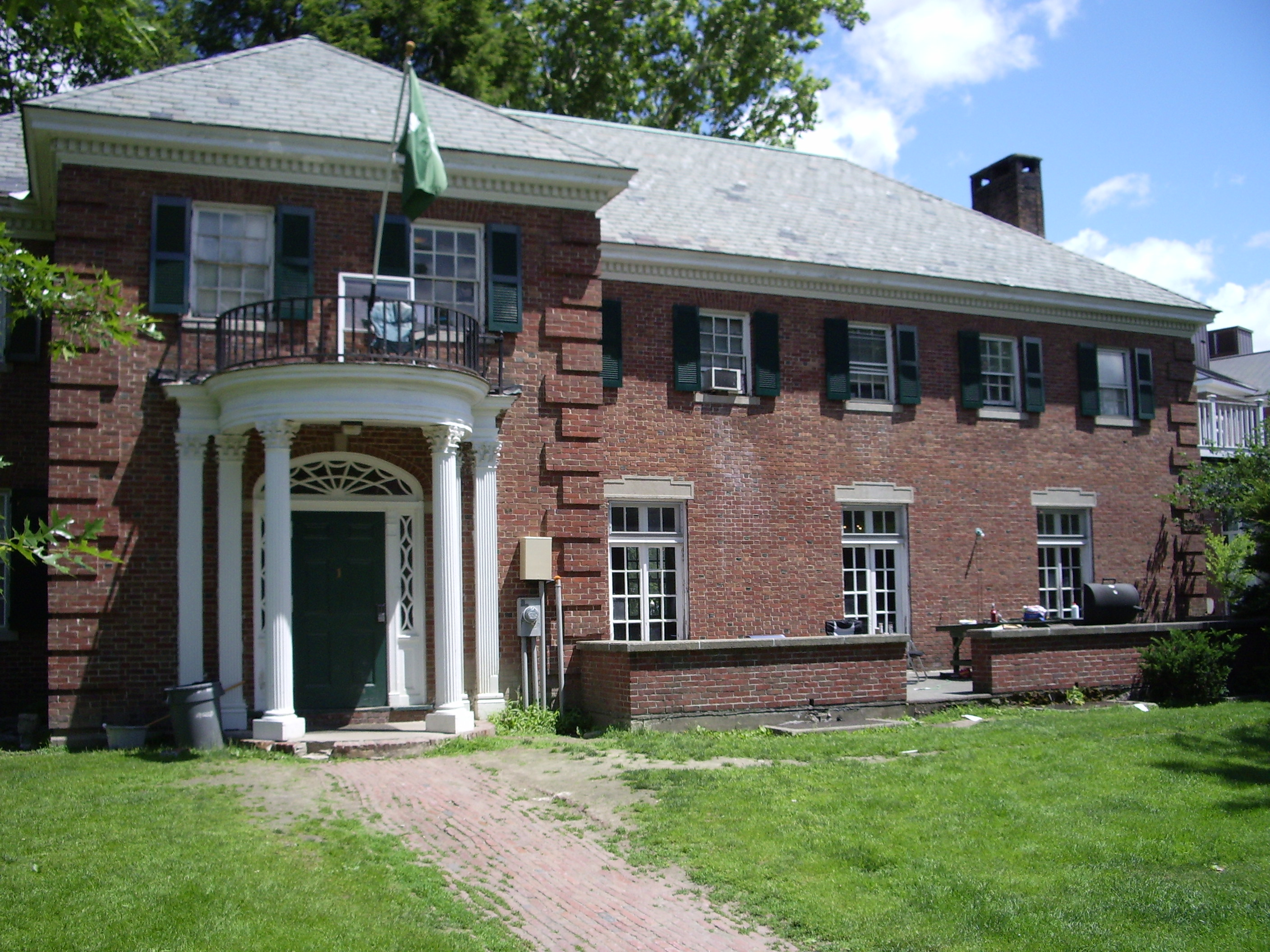 Photograph of Kappa Kappa Kappa at the campus of Dartmouth College in Hanover, New Hampshire.